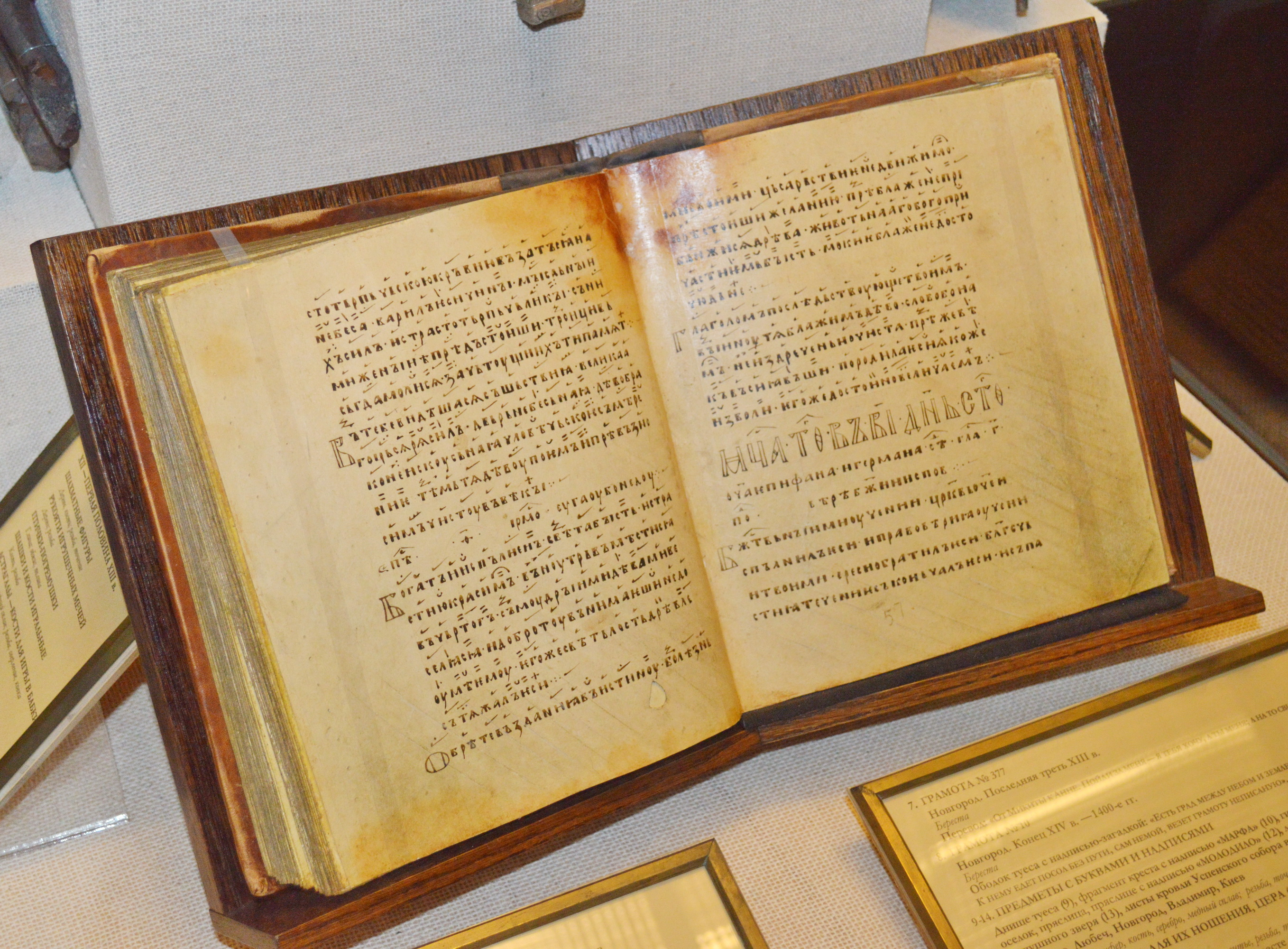 Menaion, Novgorod, second half of 12 century.